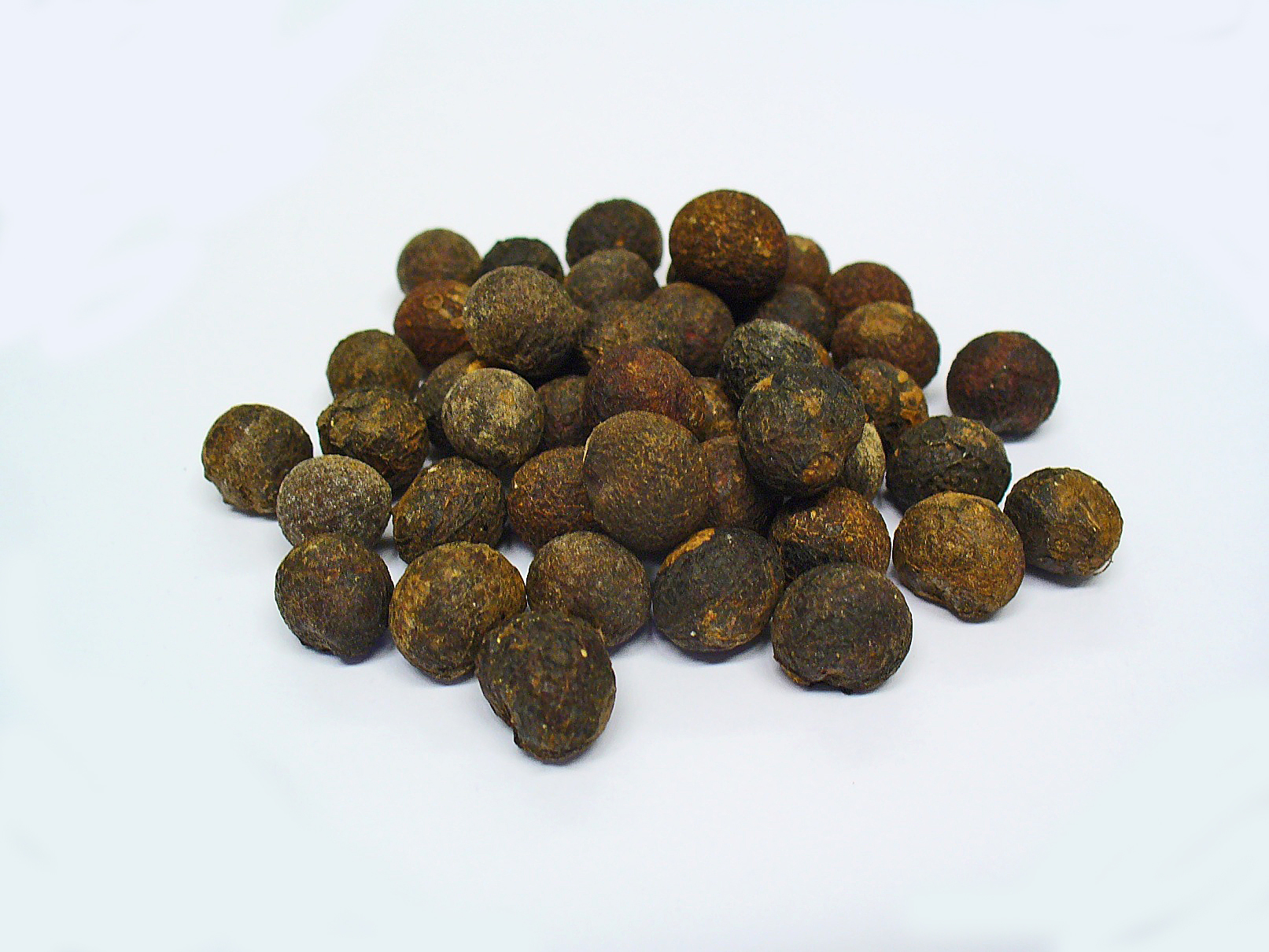 Anamirta cocculus, Menispermiaceae, Fishberry, Levant Nut, dried fruits. The ripe, dried fruits are used in homeopathy as remedy: Cocculus (Cocc.)